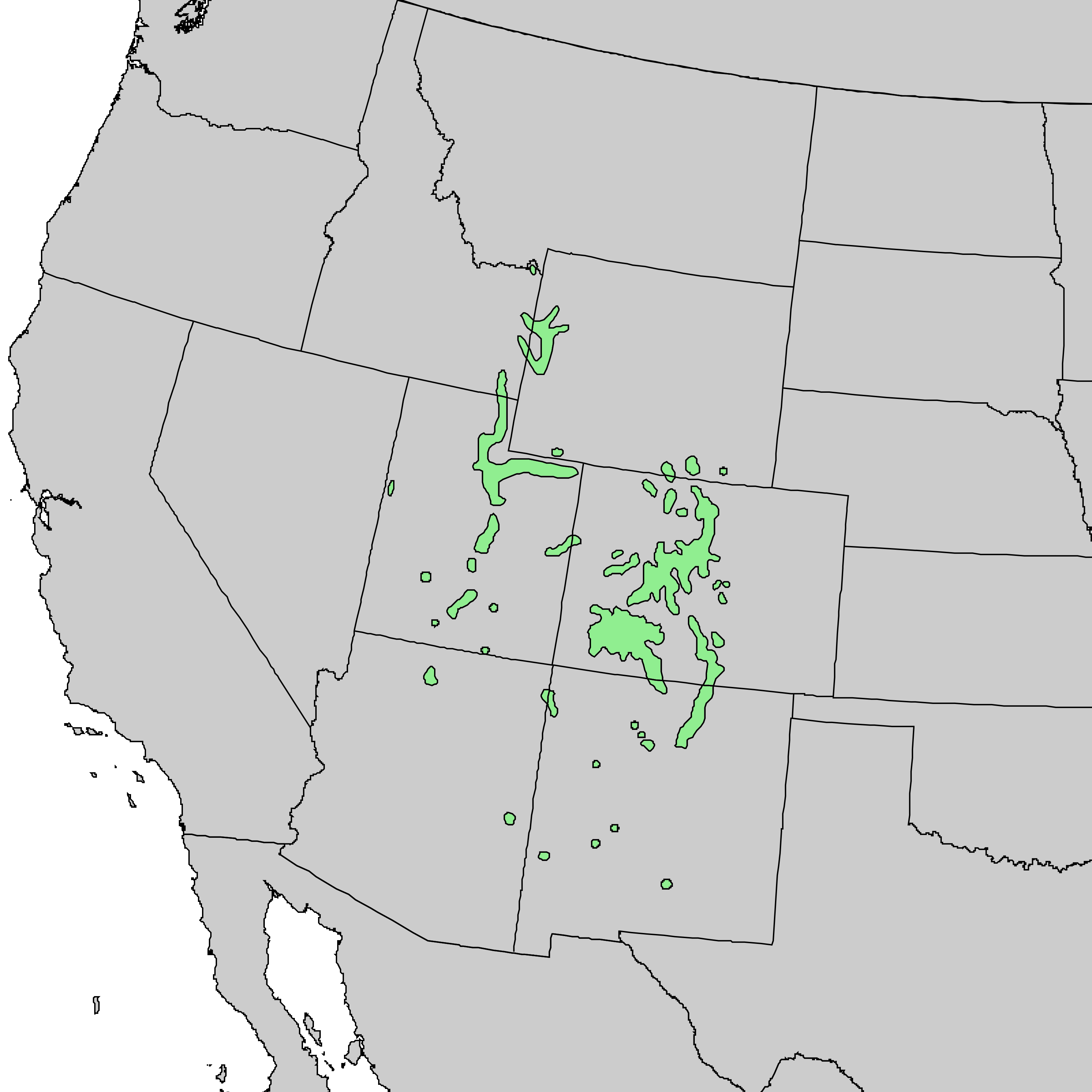 Natural distribution map for Picea pungens